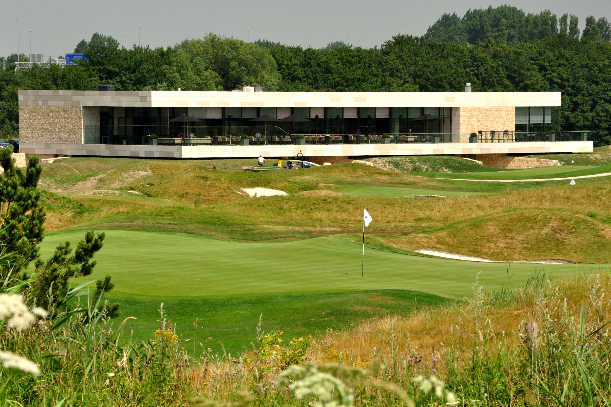 Exterior of the clubhouse of golf course The International (Amsterdam).